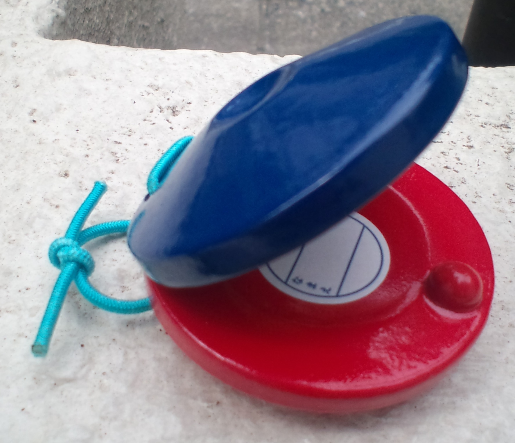 A pair of Japanese "educational castanets"